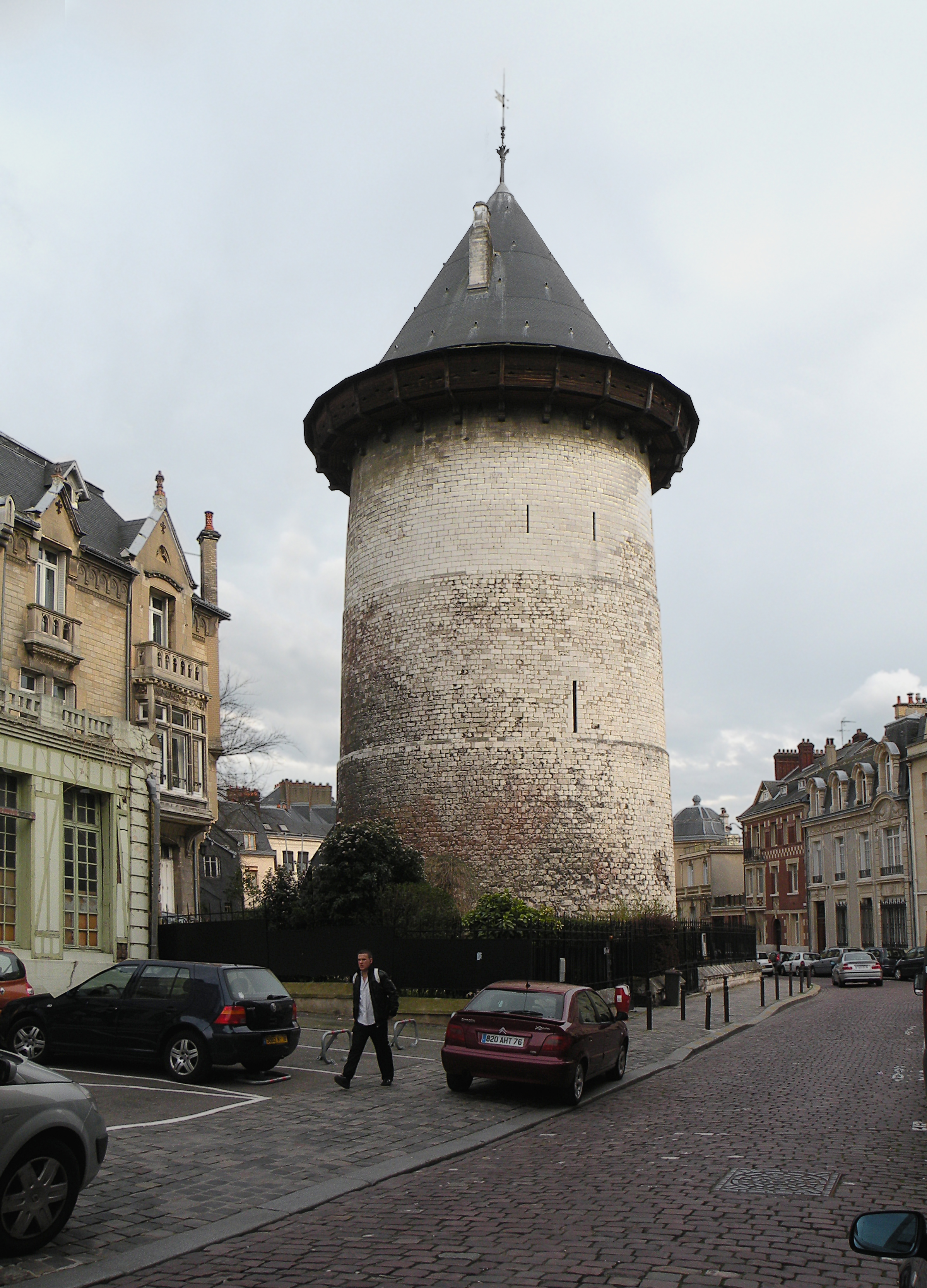 Jeanne_d_Arc_Tower._(Rouen).